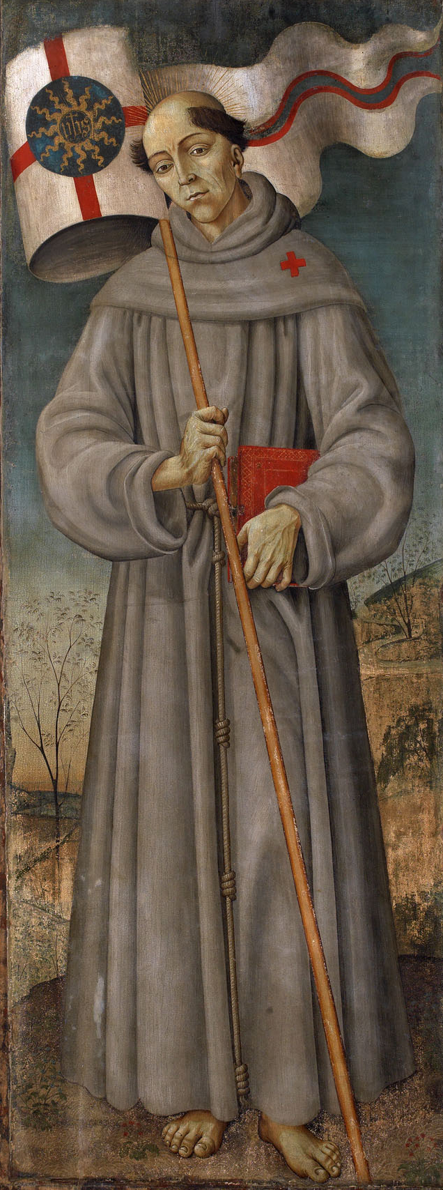 Aquila, Museo Nationale, Maestro di San Giovanni da Capistrano (Giovanni di Bartolomeo dell’Aquila), cc.1480-1485. The four side panels represent scenes of the saint's life [counter-clockwise]: in the upper left panel, Holy Mass celebrated on the battle field in the presence of the Crusaders below it, the Battle of Belgrade, where the Crusaders fought against the Turks in the top right panel, a sermon given by St. John in L'Aquila, during which some possessed people were healed. in the background is the Cathedral of St. Maximus, as it would appear before the catastrophic earthquake of 1703 that destroyed it almost completely. in the lower right panel, the death of the saint. The panel, dated between 1480 and 1485 (and then just thirty years after the death of the saint) was first attributed to Sebastiano di Cola from Casentino; later on, to a "Maestro delle Storie di S. Giovanni da Capestrano", who also authored "St. Francis Receiving the Stigmata", stored in the same room of the museum. According to the latest studies, this Maestro should be identified with Giovanni di Bartolomeo from Aquila, as recorded in Naples by a notary deed of June 1448: this painter shows a Gothic formation in his meticulous attention to detail, and a Renaissance influence in the use of perspective and volumes.